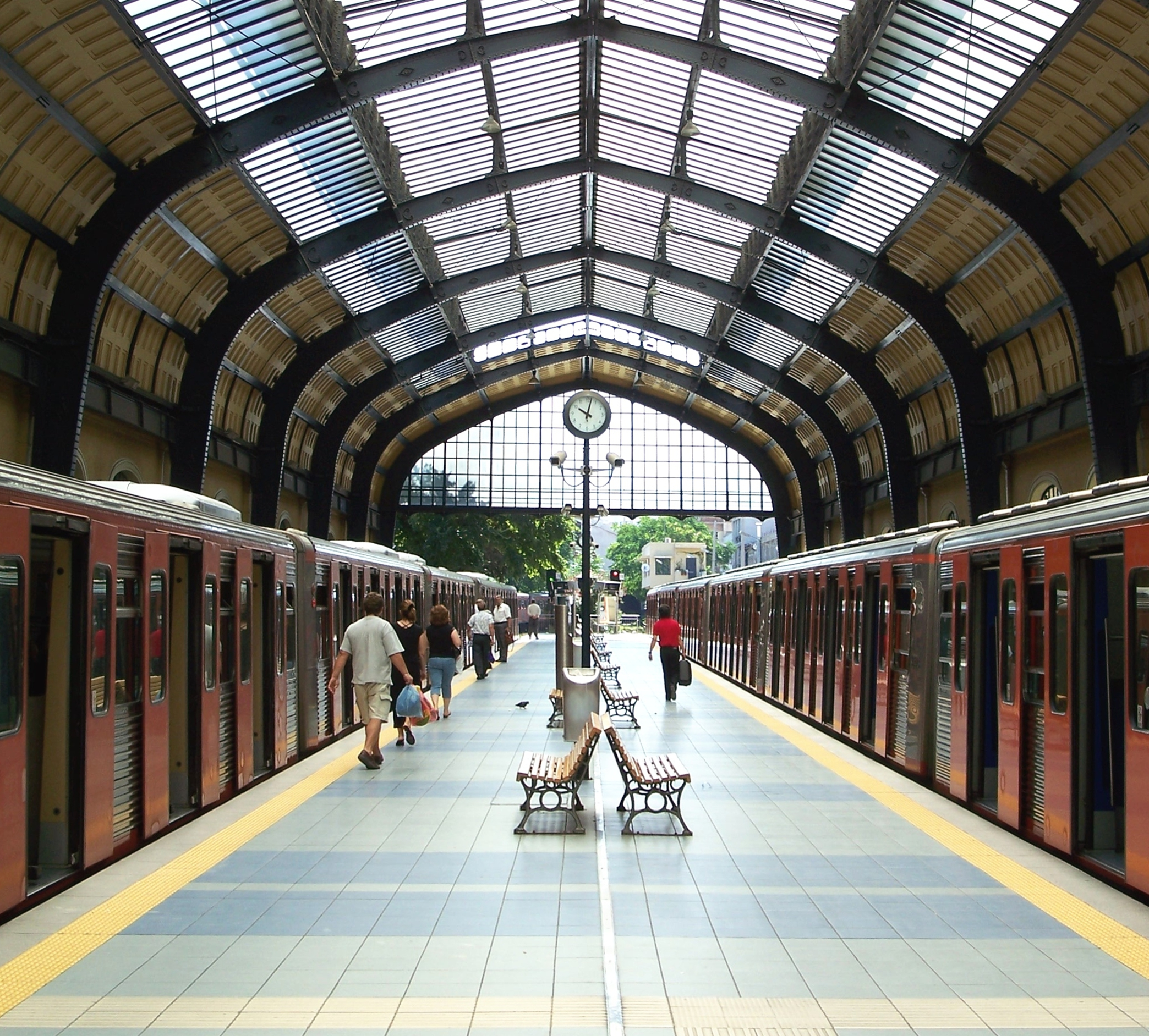 The terminal of the Athens metro line 1 (Green line) at Piraeus.